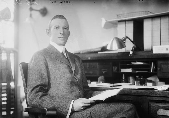 Francis Bowes Sayre.